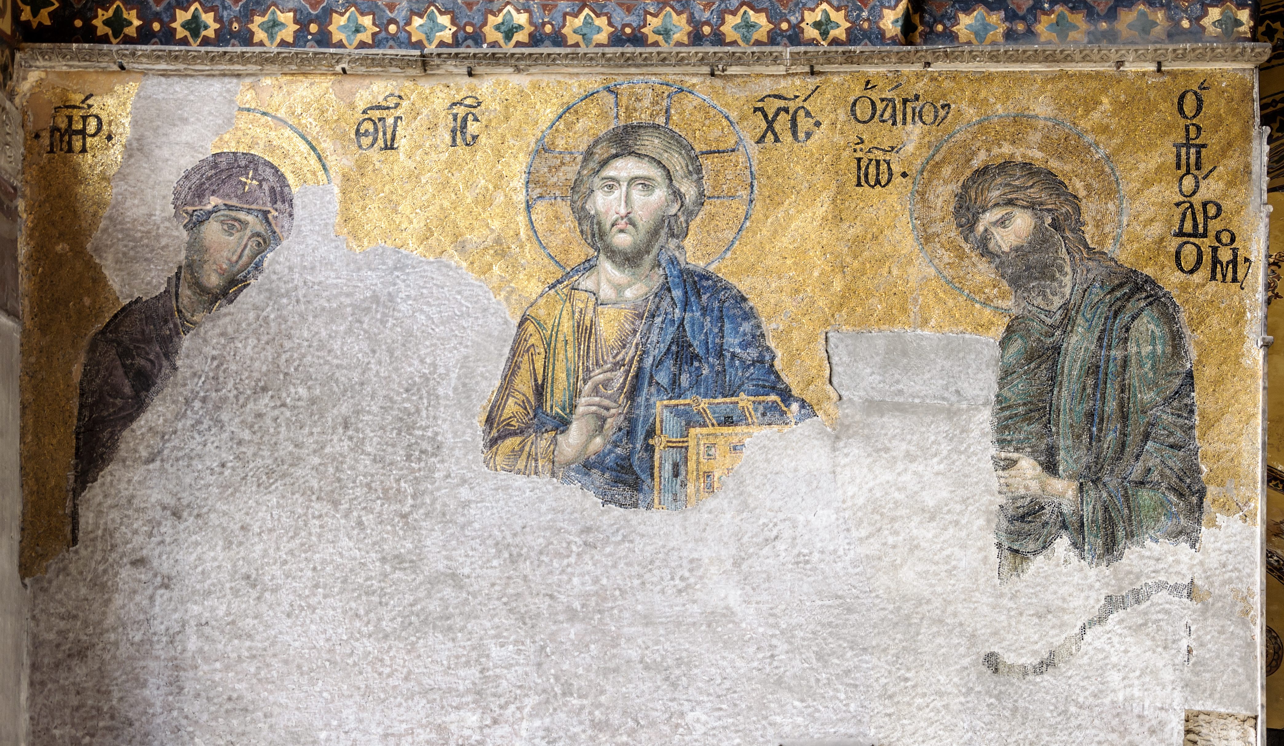 Deesis mosaic (13th-century) in Hagia Sophia (Istanbul, Turkey)